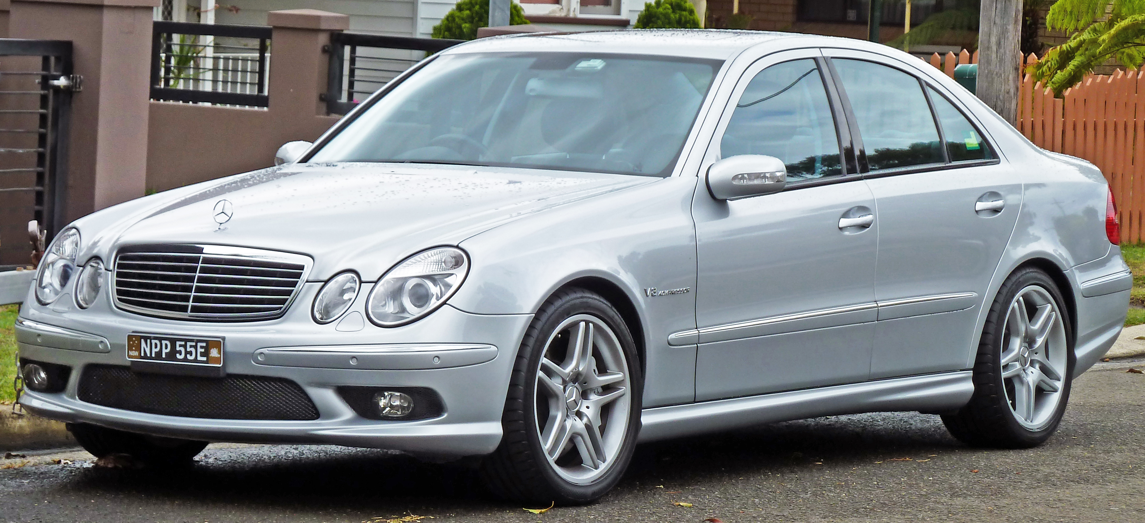 2002–2006 Mercedes-Benz E 55 AMG (W211) sedan. Photographed in Sans Souci, New South Wales, Australia.